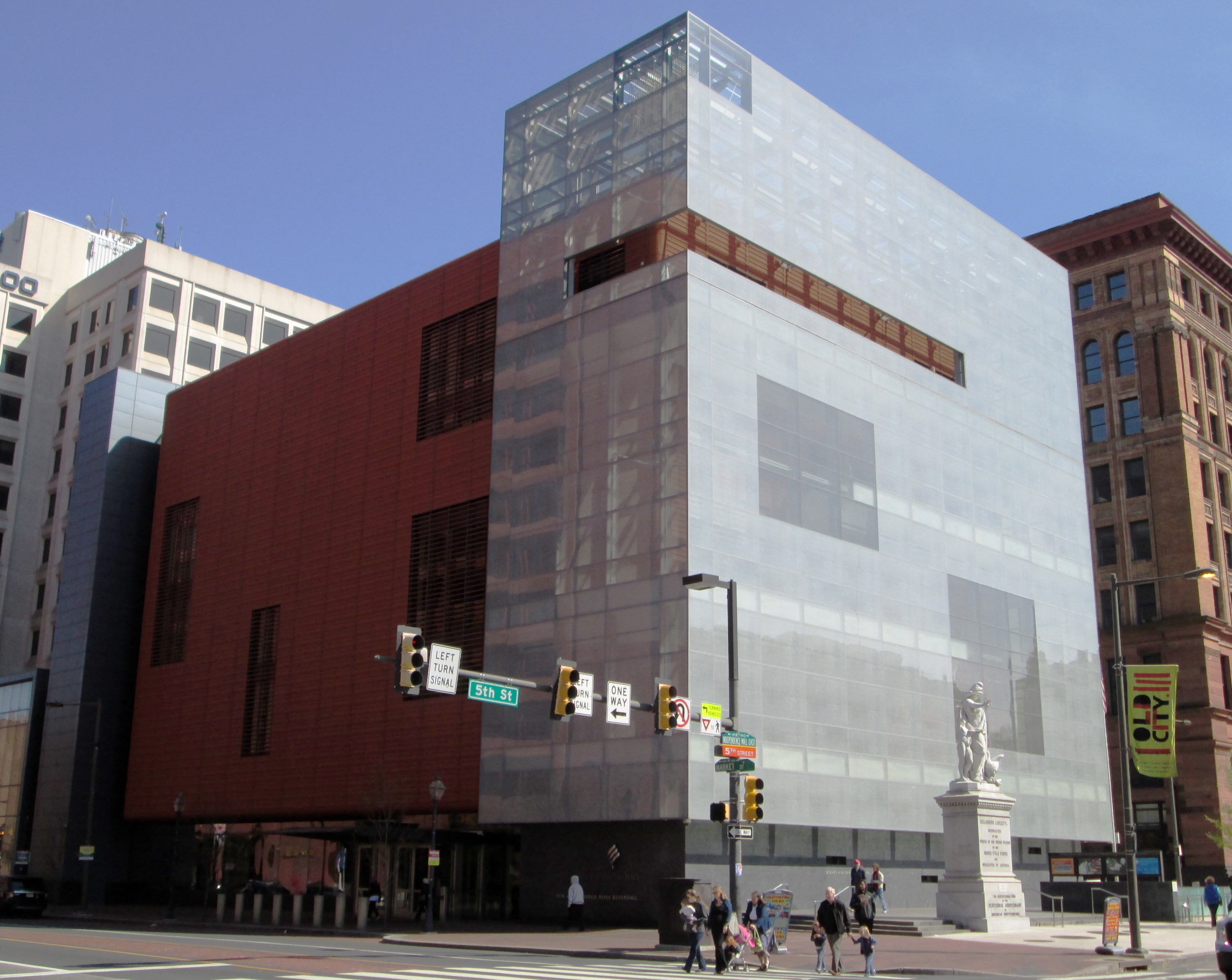 The National Museum of American Jewish History at 101 South Independence Mall East (S. 5th Street) at Market Street, in Center City, Philadelphia, is a Smithsonian-affiliated museum. Founded in 1976, it initially shared a building with Congregation Mikveh Israel. The ground breaking for its current building, designed by James Polshek, took place on September 30, 2007. The 100,000-square-foot (9,300 m2) glass and terra-cotta building was includes an atrium, a 25,000 square feet (2,300 m2) area for exhibits, a Center for Jewish Education, and a theater. It opened to the public on November 26, 2010.